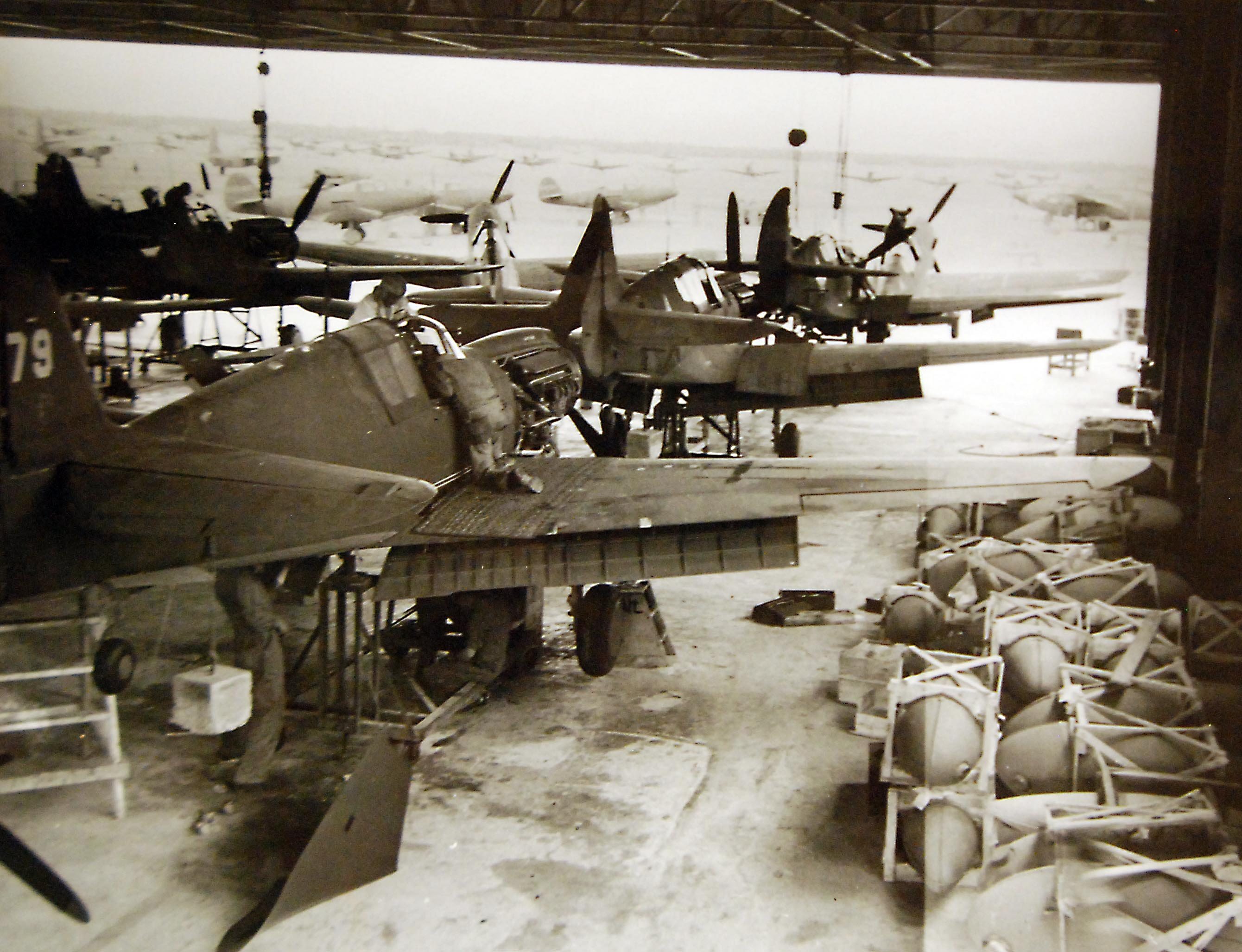 Lot-11600-4: Middle East Activities, WWII. An assembly plant for American fighter warplanes destined for Russia, somewhere in Iran, March 1943. The aircraft being transported were Curtiss P-40 "Tomahawks". Photographed by Nick Parrino. Office of War Information Photograph. (2016/06/03).